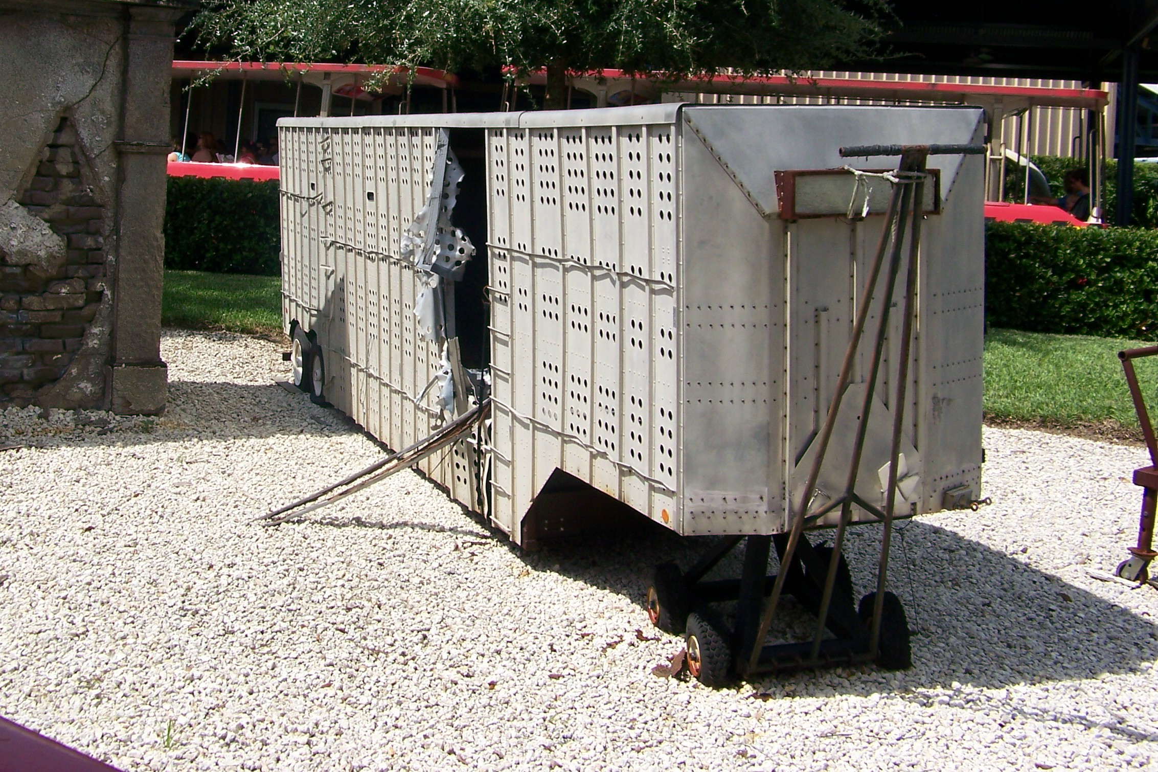 A model of the trailer used in the 1998 film Mighty Joe Young, featured on an attraction at Disney-MGM Studios. In the film, the oversized gorilla breaks out of the trailer, and the model was used for filming the scene. Image taken on July 26, en:2007.